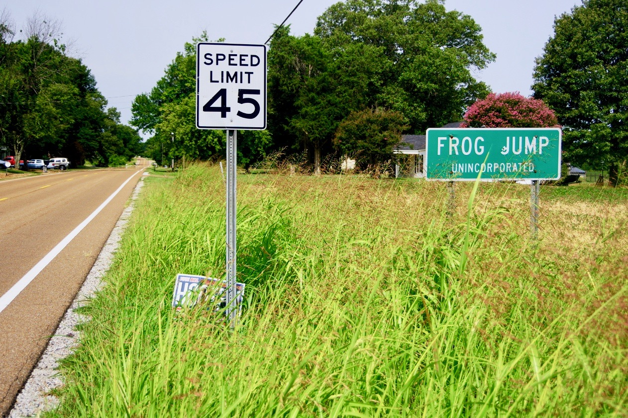 Sign along Tennessee State Route 88 at the entrance to the Frog Jump community of Crockett County, Tennessee, United States.